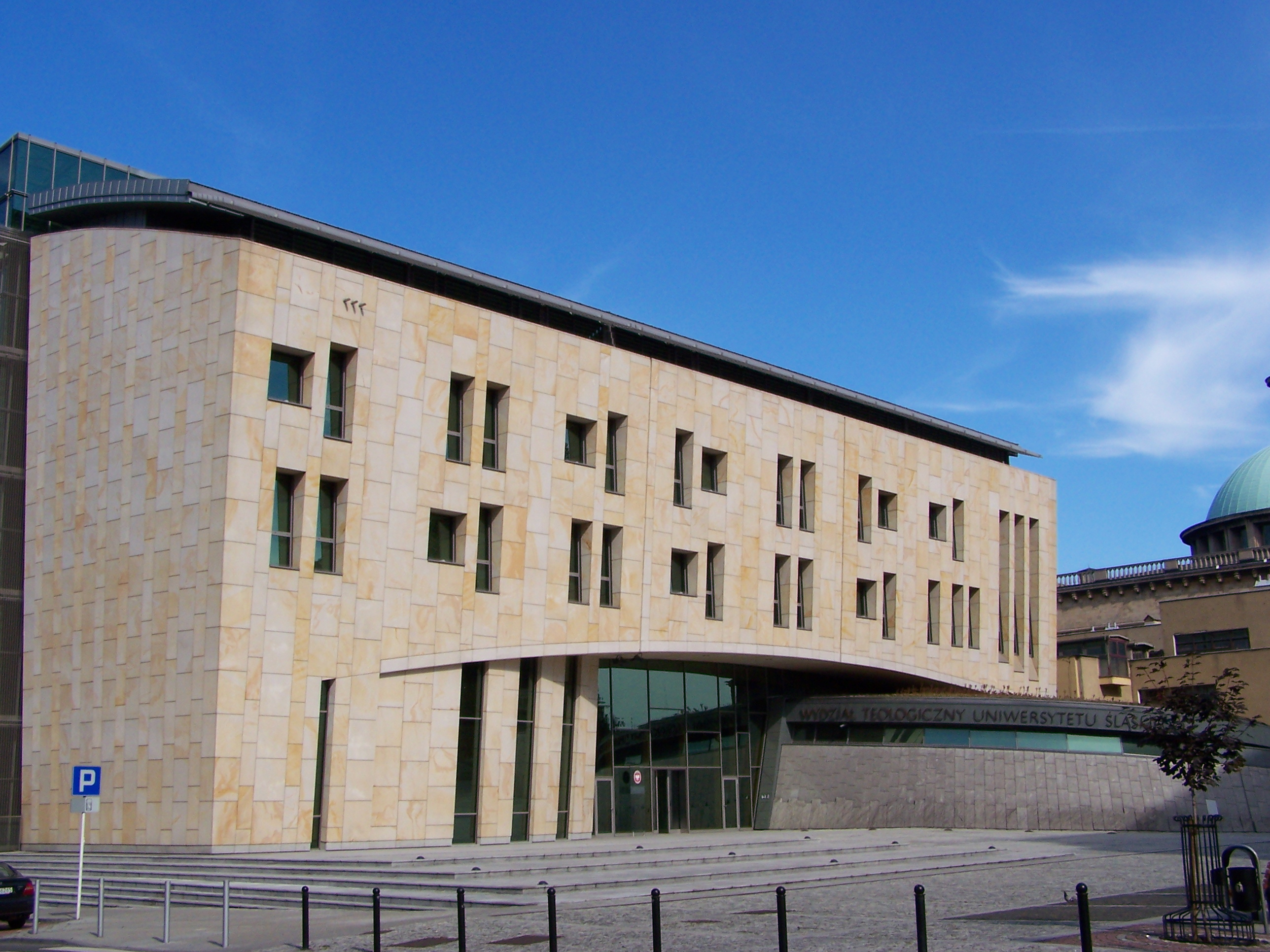 University of Silesia - Faculty of Theology.